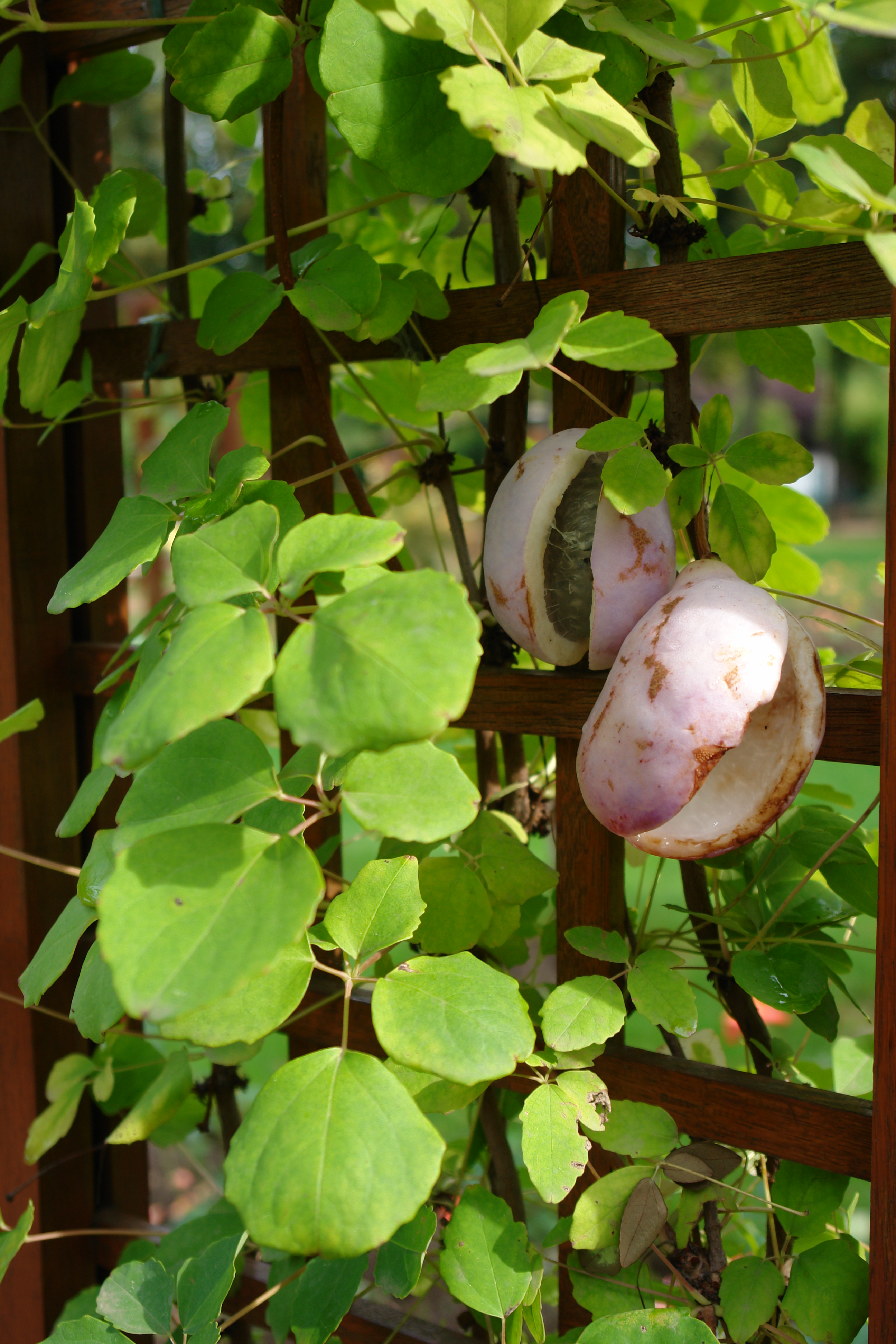 Akebia × pentaphylla, fruits (Nancy, France).